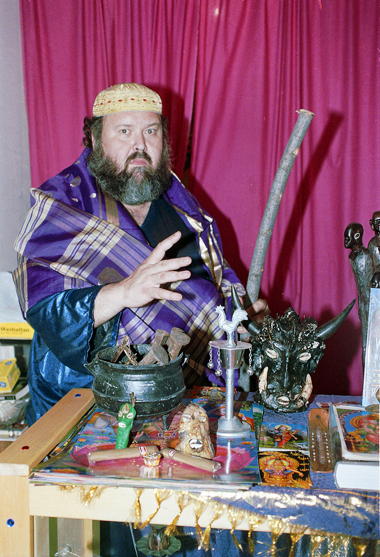 Photograph of Santerían priest, Baba Raúl Cañizares